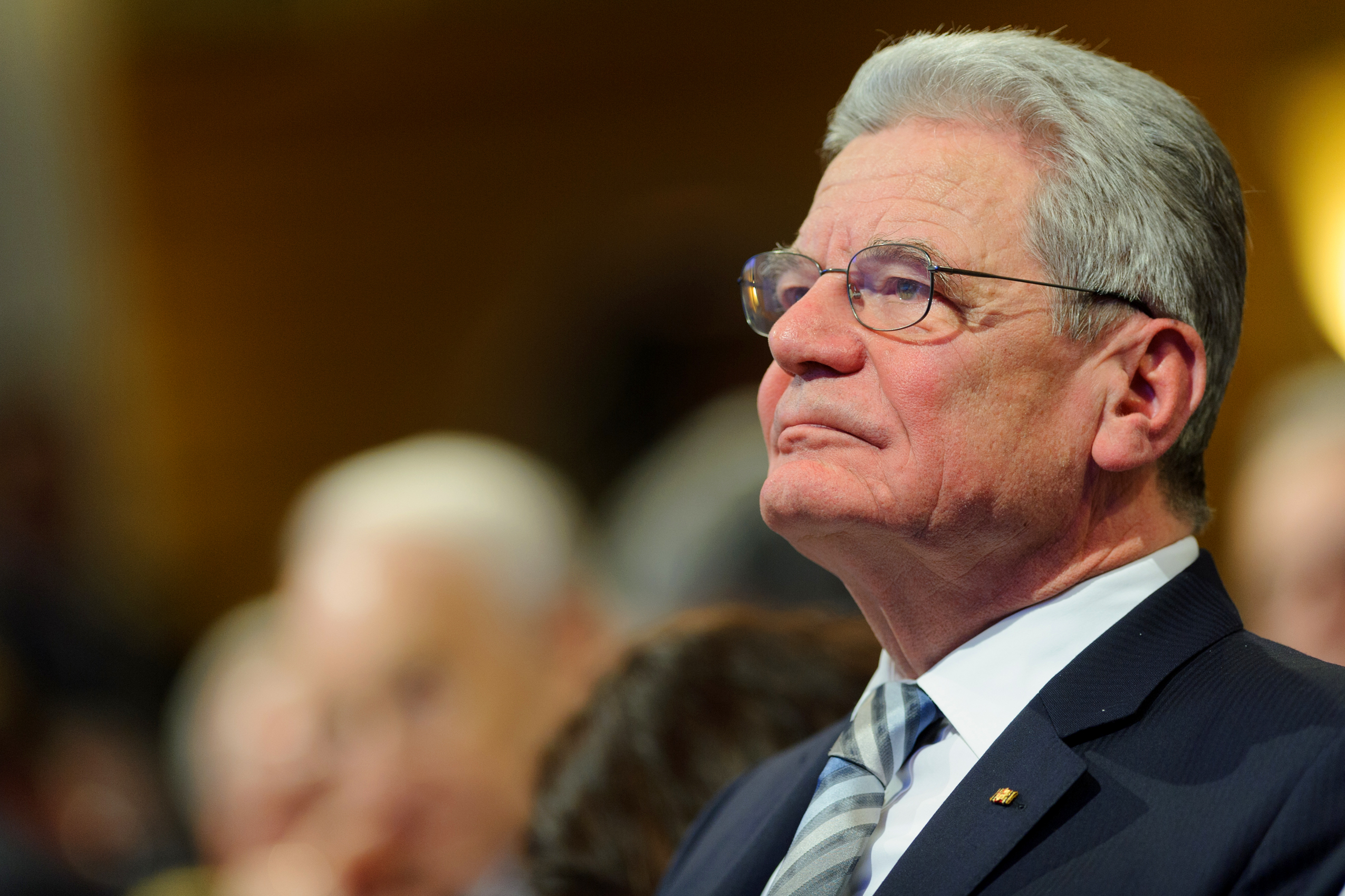 50th Munich Security Conference 2014: Joachim Gauck: Joachim Gauck (Federal President, Federal Republic of Germany), during the opening session of the 50th MSC